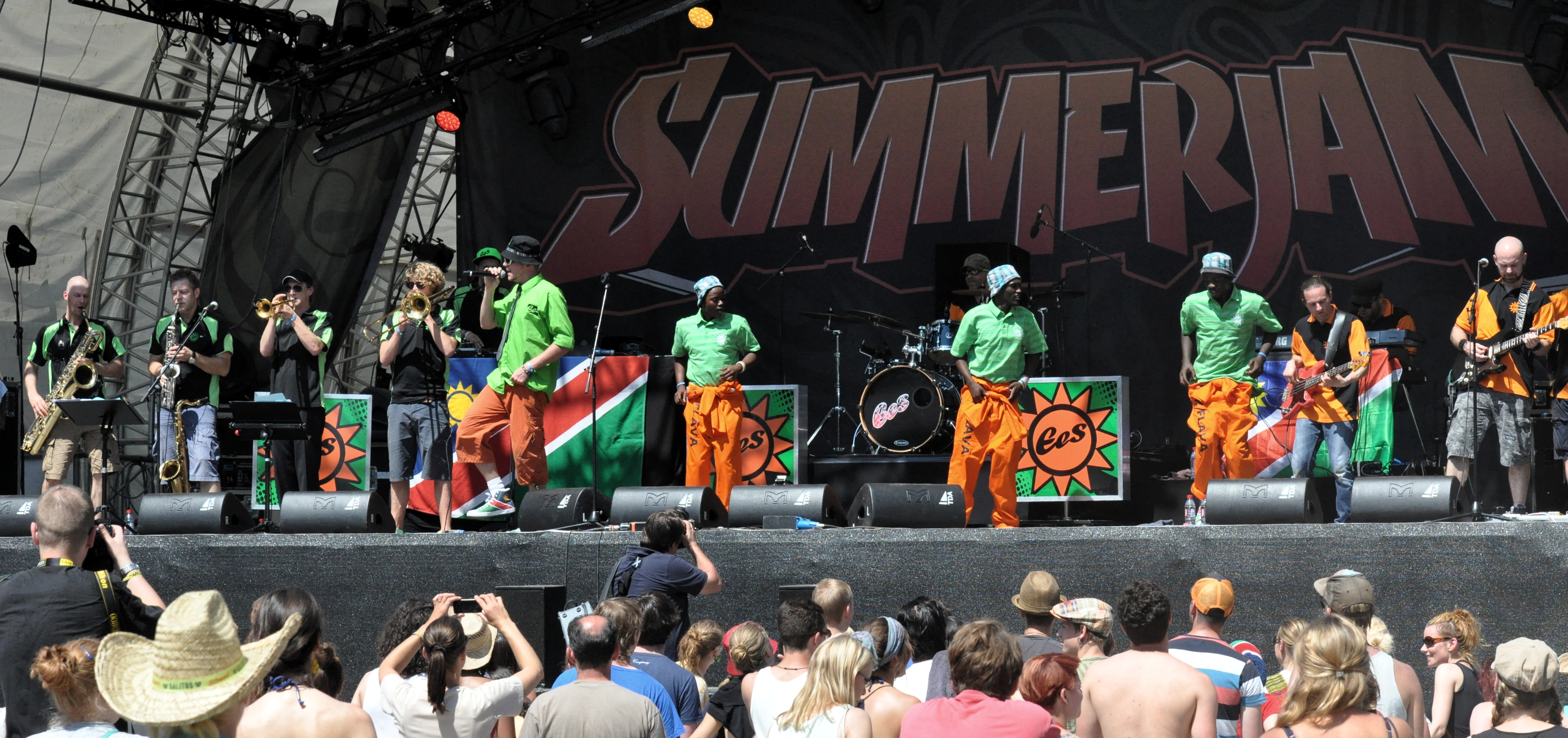 Ees at Summerjam festival 2013